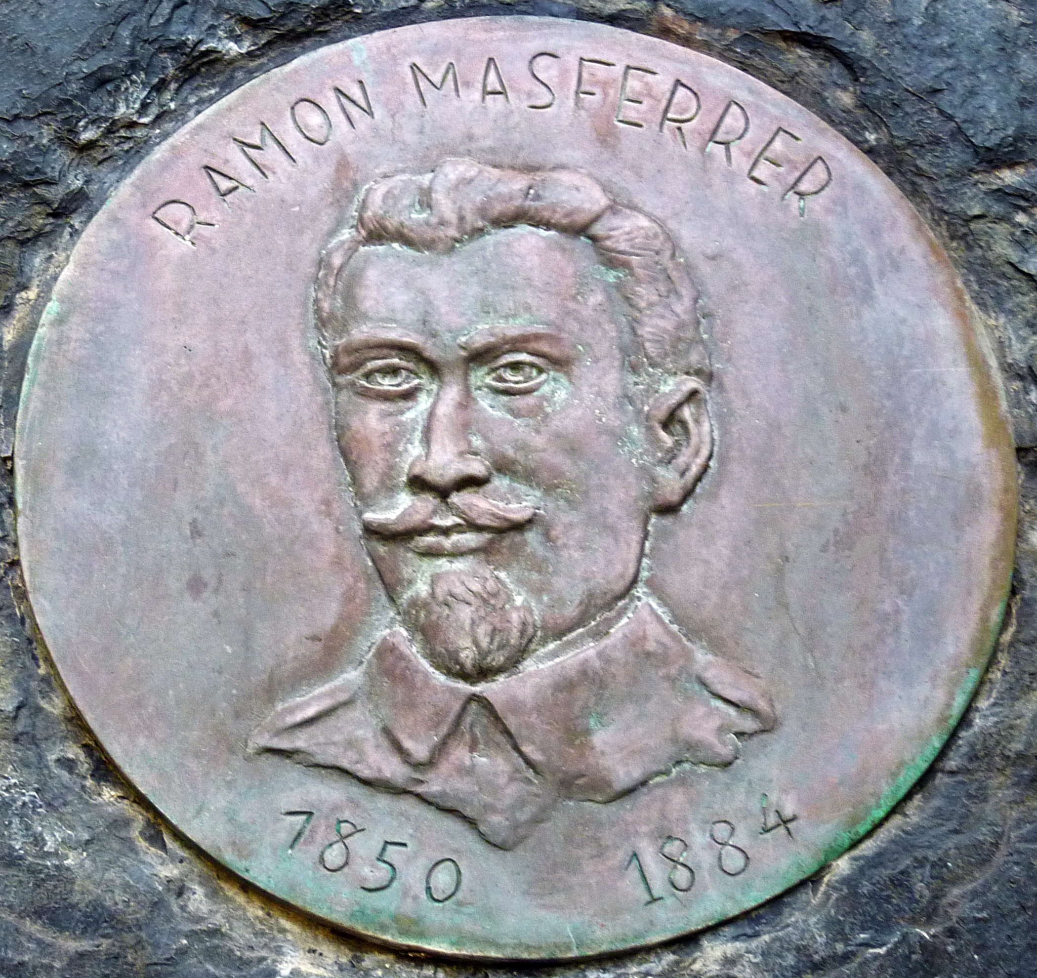 Plaque of Ramón Masferrer y Arquimbau in the Jardín Botánico Canario Viera y Clavijo.